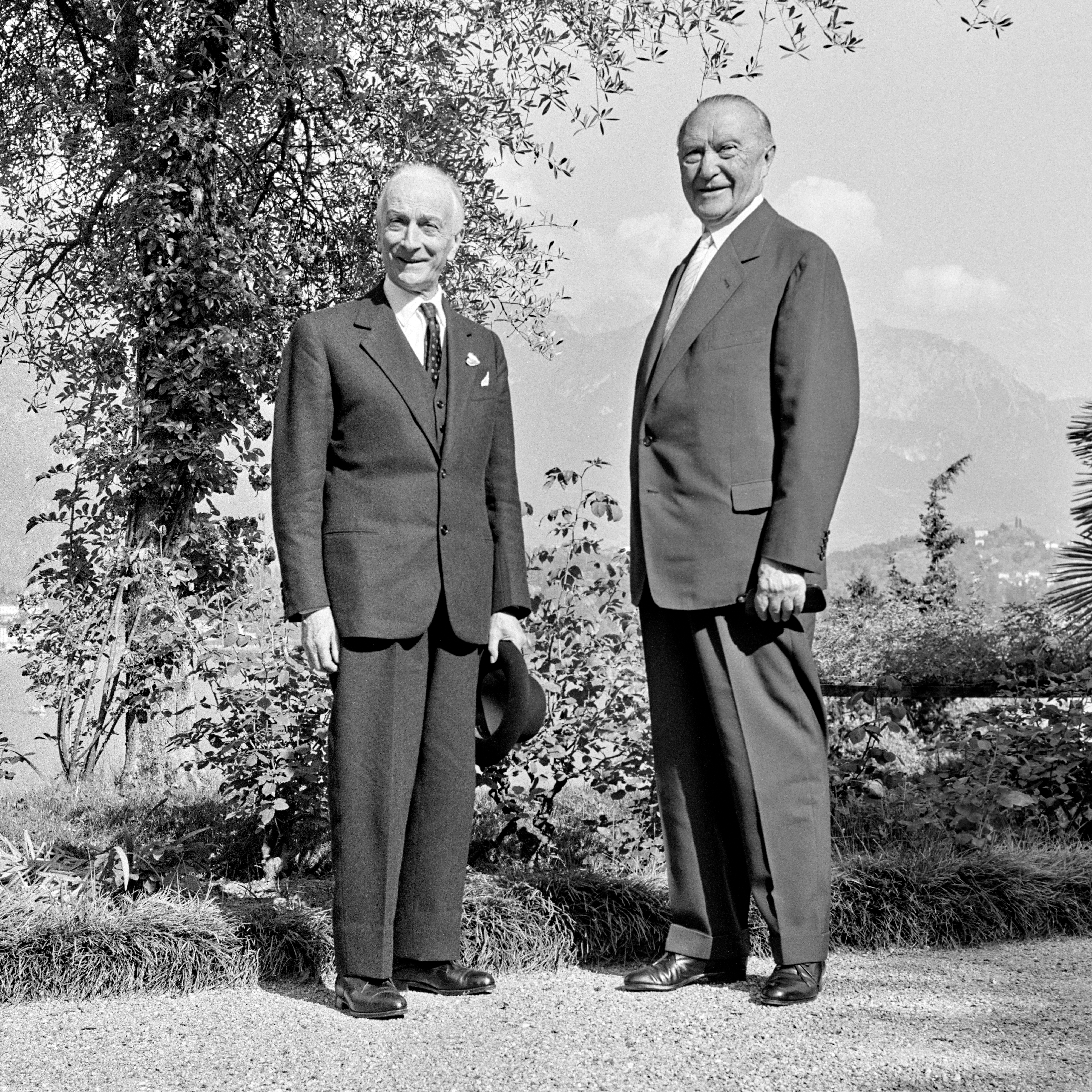 Italian Prime Minister Antonio Segni with Konrad Adenauer, Chancellor of the Federal Republic of Germany, in Cadenabbia, Italy. The image was taken by the photographer Giuseppe Moro on August 22, 1959.